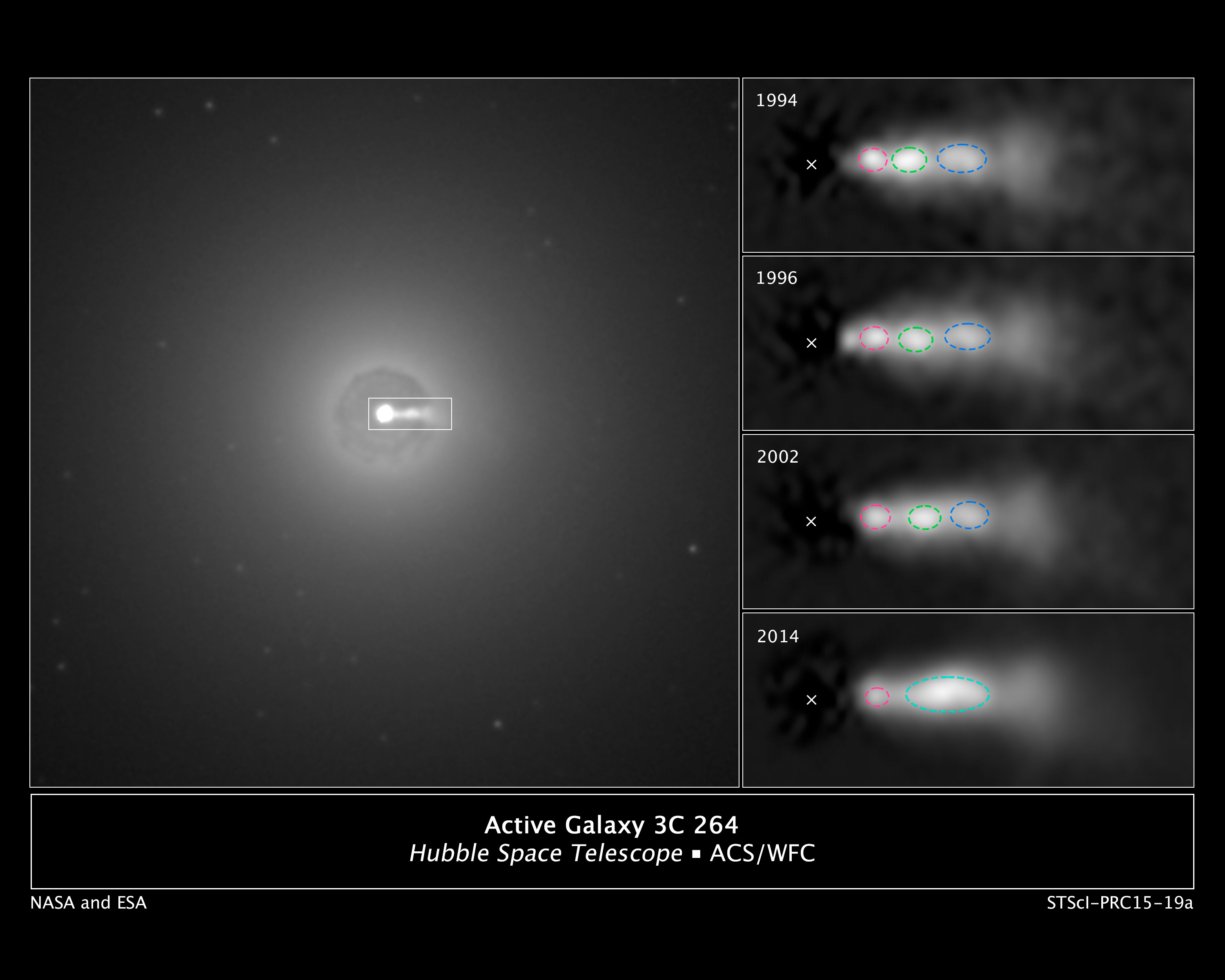 [Left] In this NASA Hubble Space Telescope image of the central region of the galaxy NGC 3862, an extragalactic jet of material moving at nearly the speed of light can be seen at the three o'clock position. The jet of ejected plasma is powered by energy from a supermassive black hole at the center of the elliptical galaxy, which is located 260 million light-years away in the constellation of Leo. [Right] A sequence of Hubble images of knots (outlined in red, green, and blue) shows them moving along the jet over a 20-year span of observing. Astronomers were surprised to discover that the central knot (green) caught up with and merged with the knot in front of it (blue). The new analysis suggests that shocks produced by collisions within the jet further accelerate particles that are confined to a narrowly focused beam of radiation. The "X" marks the location of the black hole.